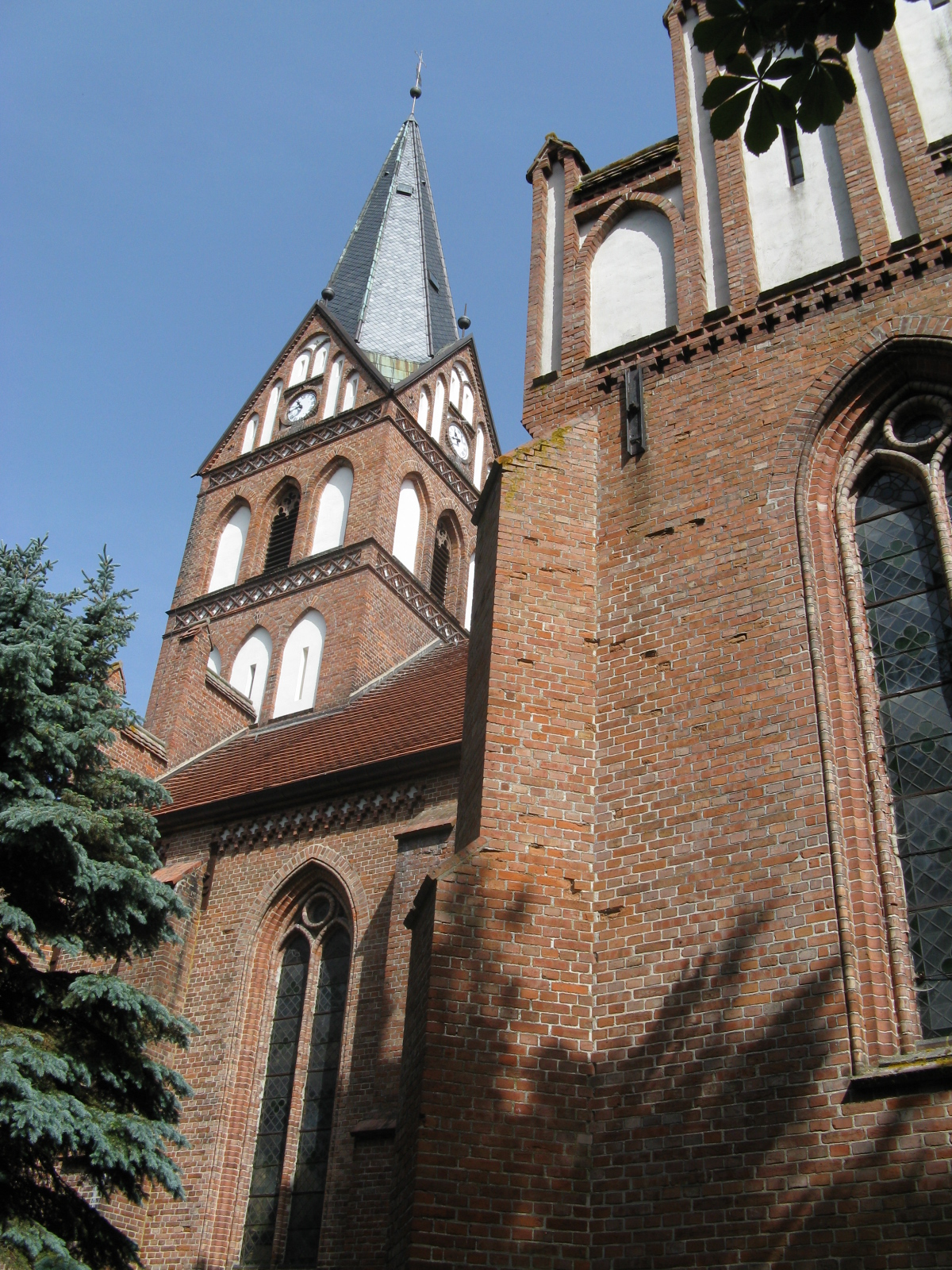 Church in Leussow, district Ludwigslust-Parchim, Mecklenburg-Vorpommern, Germany